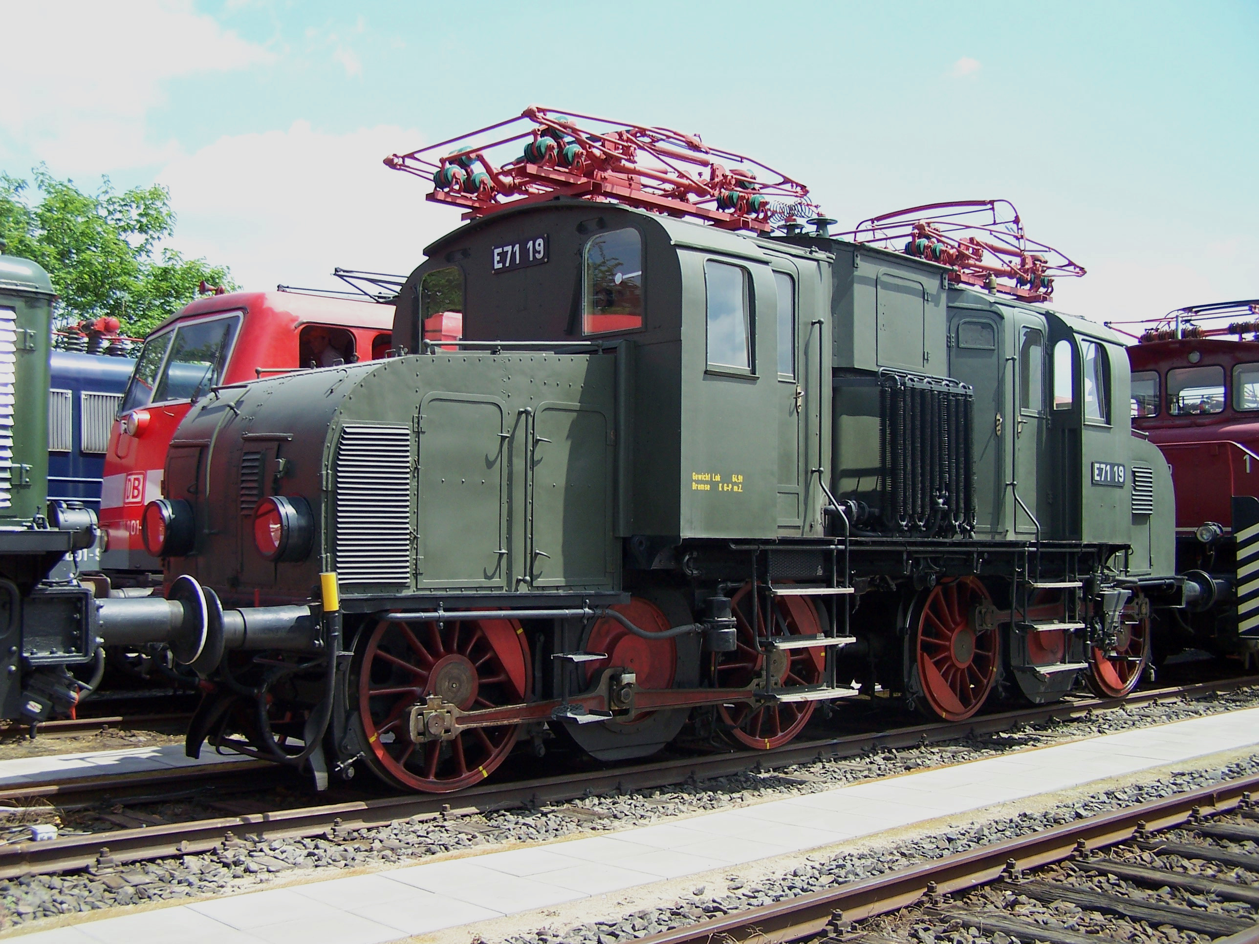 Historical DB electrical locomotive E71 19 at the DB Museum in Koblenz-Luetzel, a local branch of the Transport Museum in Nuremberg, June 2012